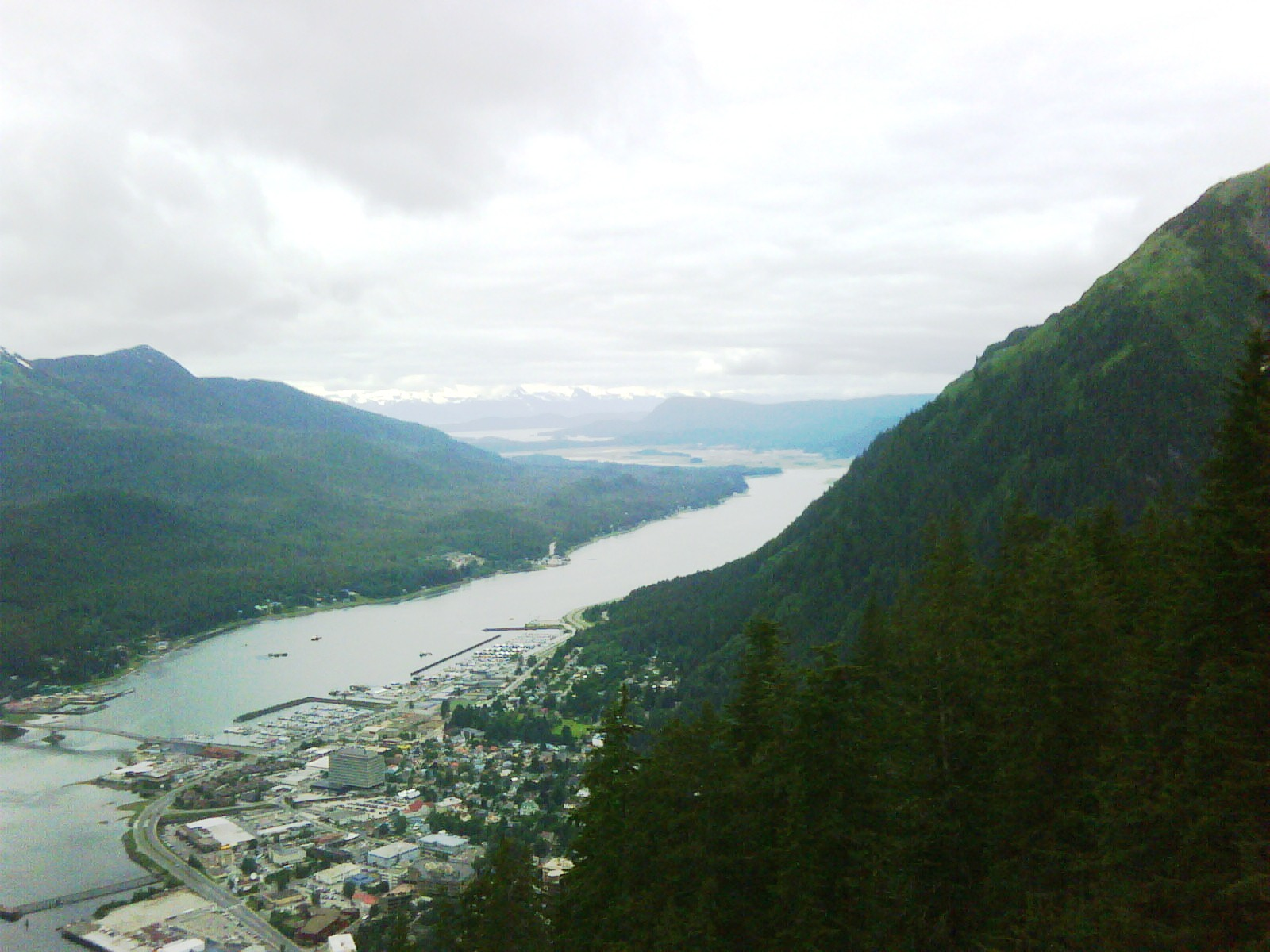 Gastineau Channel from top of Juneau tramway, Alaska